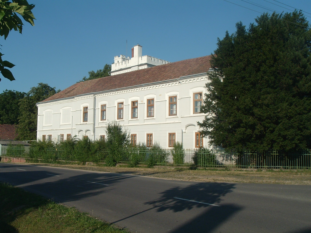 The Rupprecht mansion in Sajtoskál